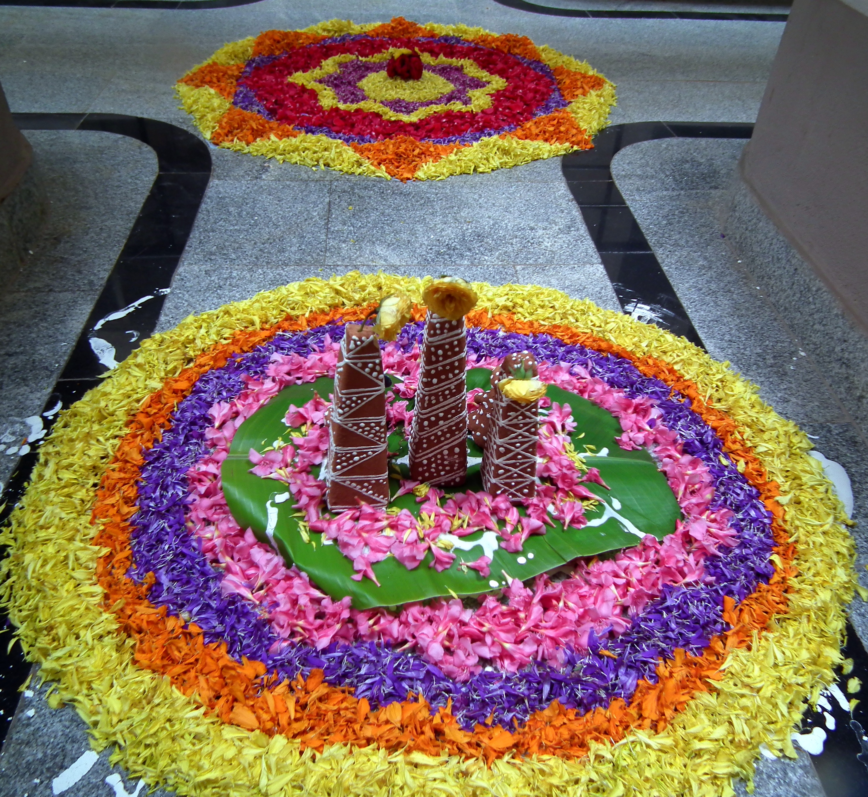 Onam 2013 in Bangalore. The pyramid structure with four faces and a flat top is an abstract icon of the Vamana-Mahabali Hindu mythology. The tallest one represents Vishnu's avatar Vamana after metamorphosis into a giant form for the three steps. It is used for Onam celebrations, called Thrikkakara Appan or Thrikakkarappan (Sanskrit: Trivikrama). Onathappan.